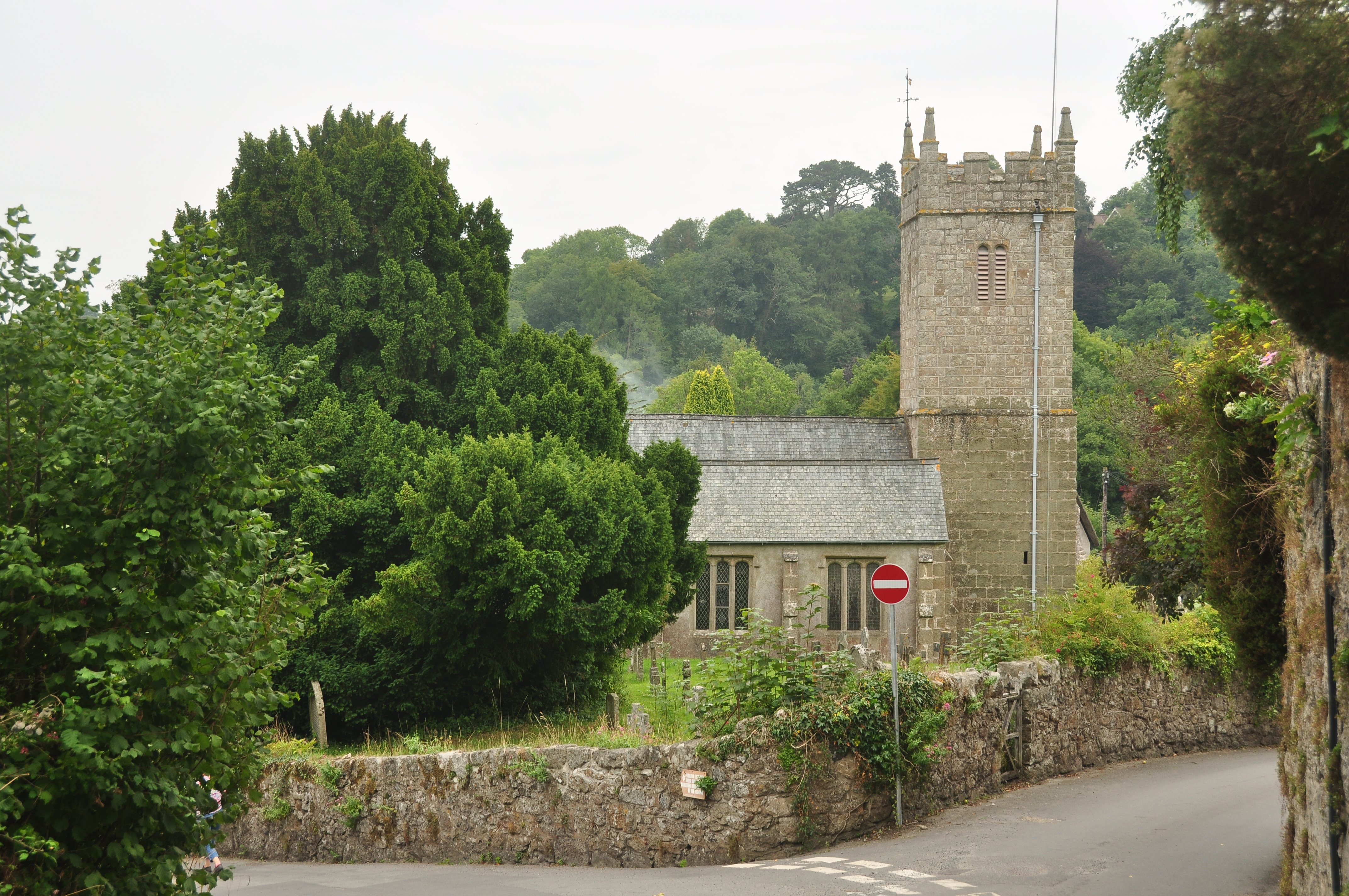 St John the Baptist's church, Lustleigh